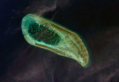 North Reef, Paracel Islands. Photo number: ISS004-E-10206. Image courtesy of the Image Science & Analysis Laboratory, NASA Johnson Space Center